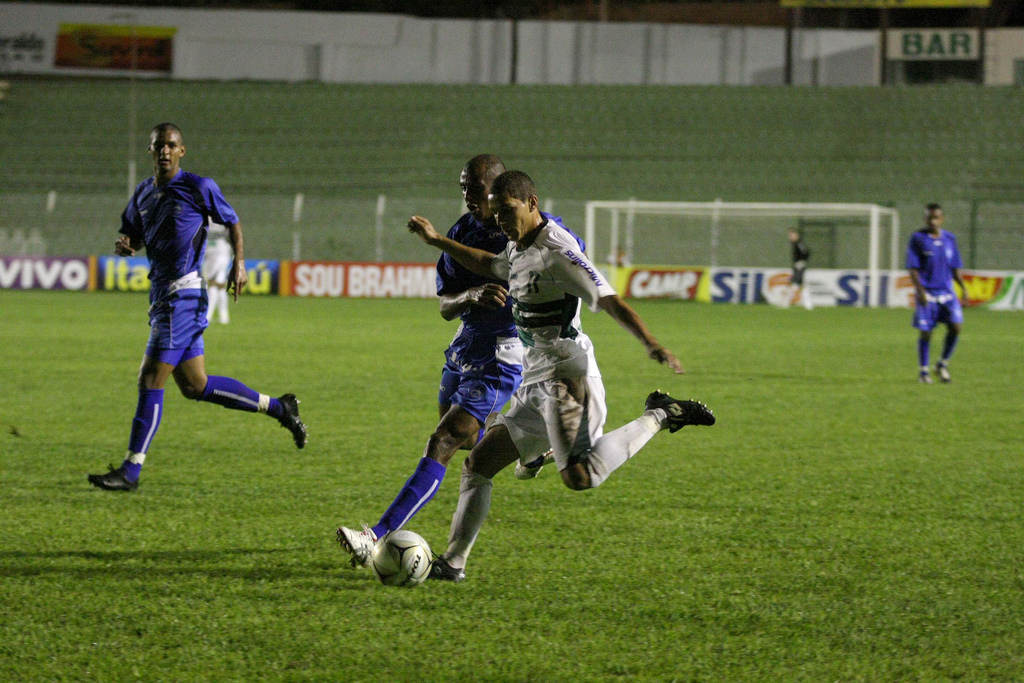 Rio Preto X Rio Claro Soccer player in Anísio Haddad Stadium, in São José do Rio Preto, São Paulo, Brazil.